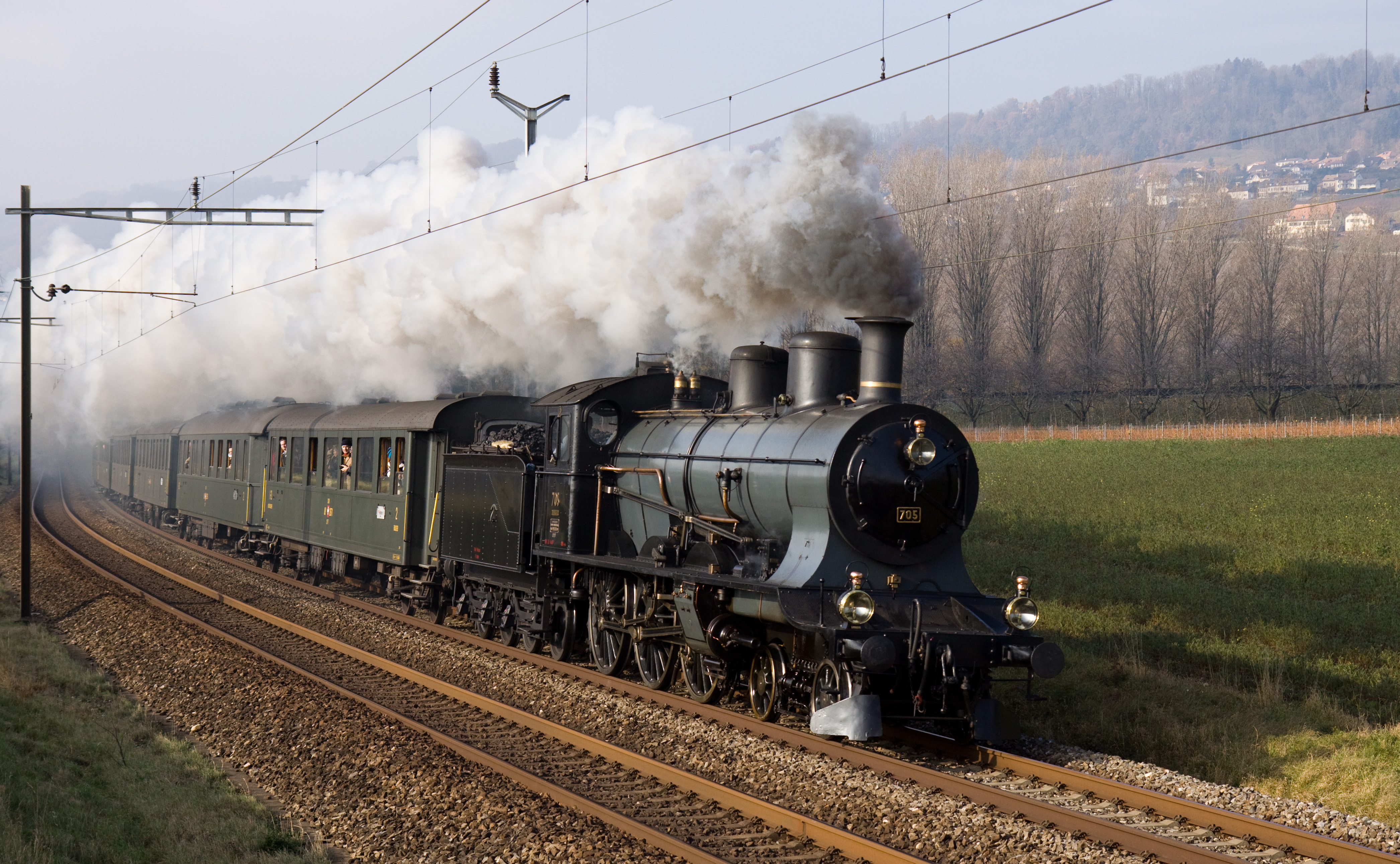 SBB Historic A 3/5 express locomotive serie 700 with coaches near Rolle, headed towards Lausanne, on the occasion of the 150 years jubilee of the Geneva - Lausanne railway line.